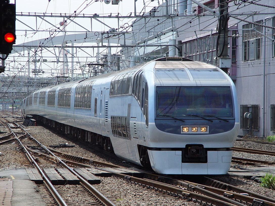 A JR East 251 series approaching Yokohama Station on an up Super View Odoriko limited express service